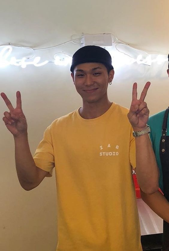 Sik-K getting his picture taken by me